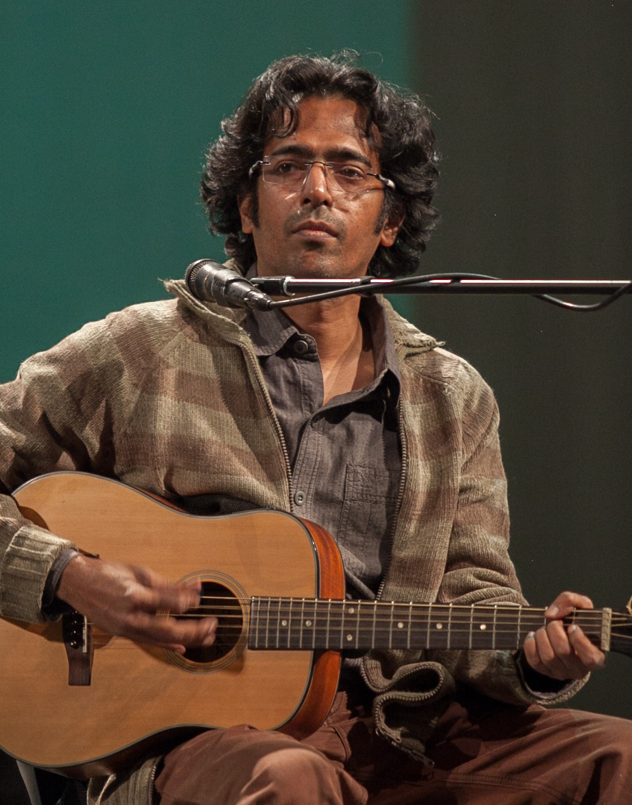 Bappa Mazumder performed in San Francisco Bay Area, California in an event organized by BABA (Bay Area Bangladesh Association).